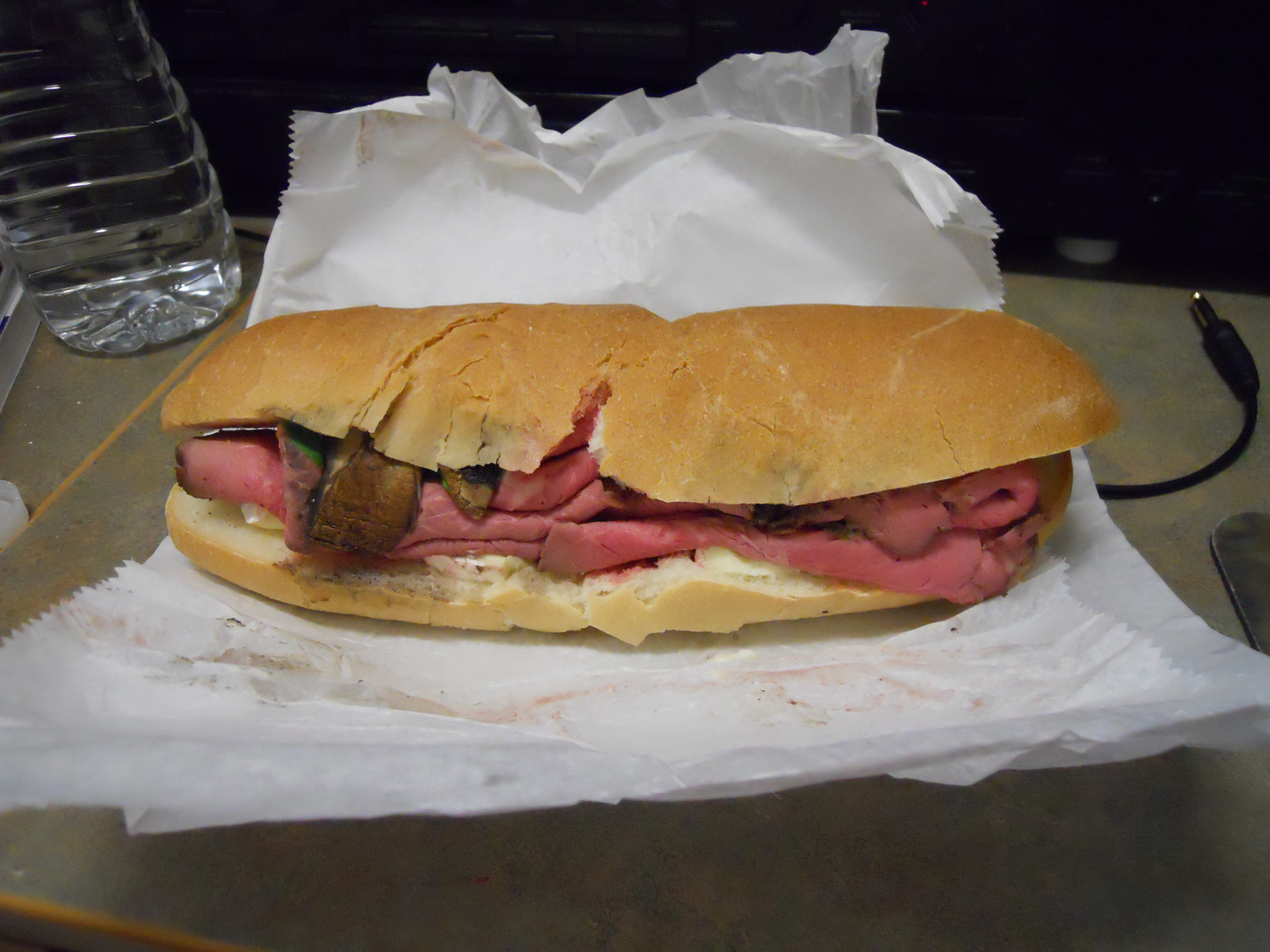 Roast beef grinder (served rare) with Munster cheese, grilled portobello mushrooms, and spinach leaves.